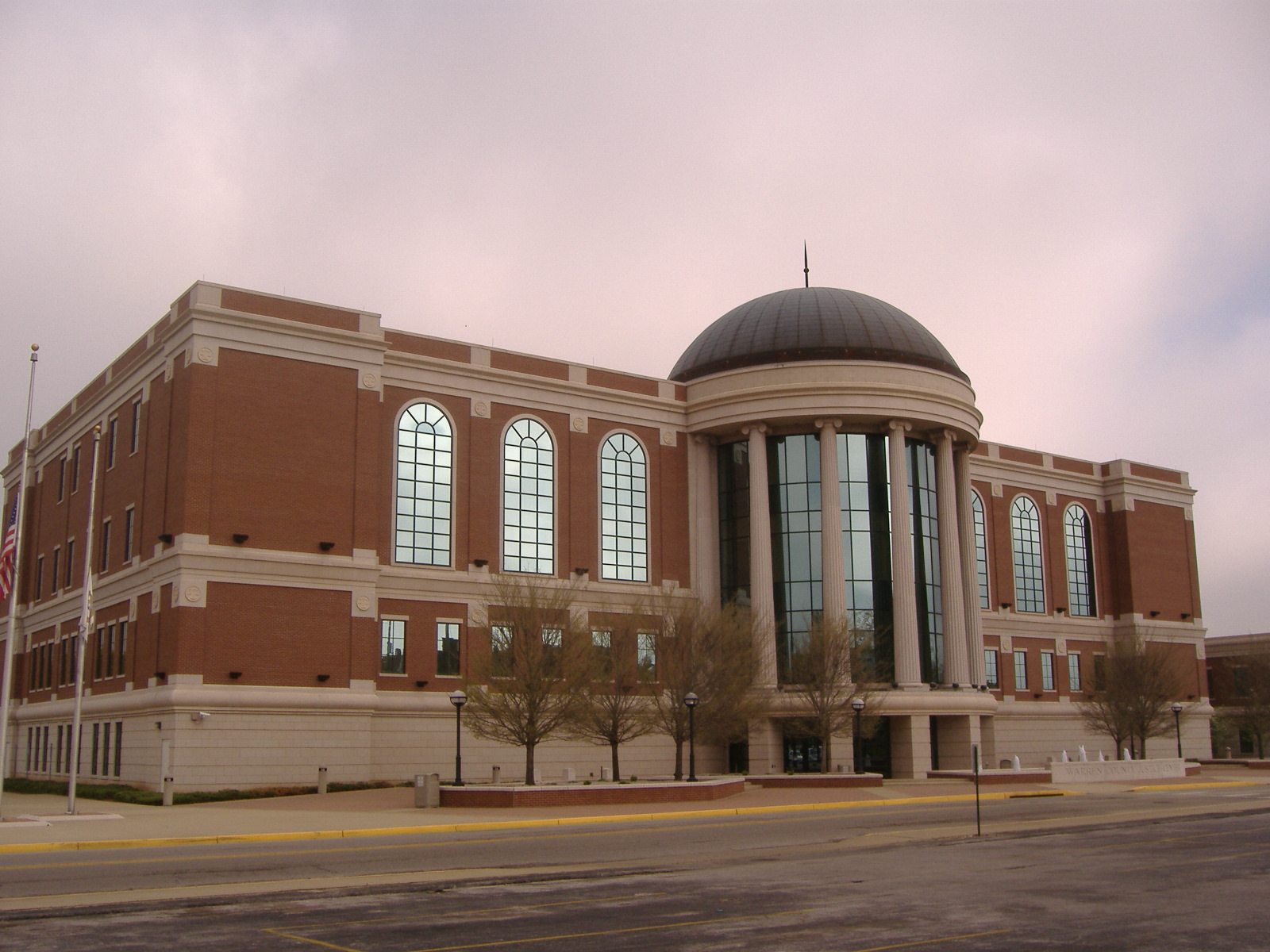 The modern Warren County courthouse in Bowling Green.